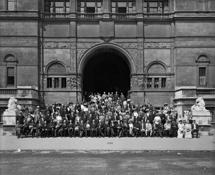 Universal Races Congress seated outside the entrance to the Imperial Institute 1911